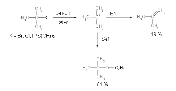 monomolecular solvolysis of t-BuX